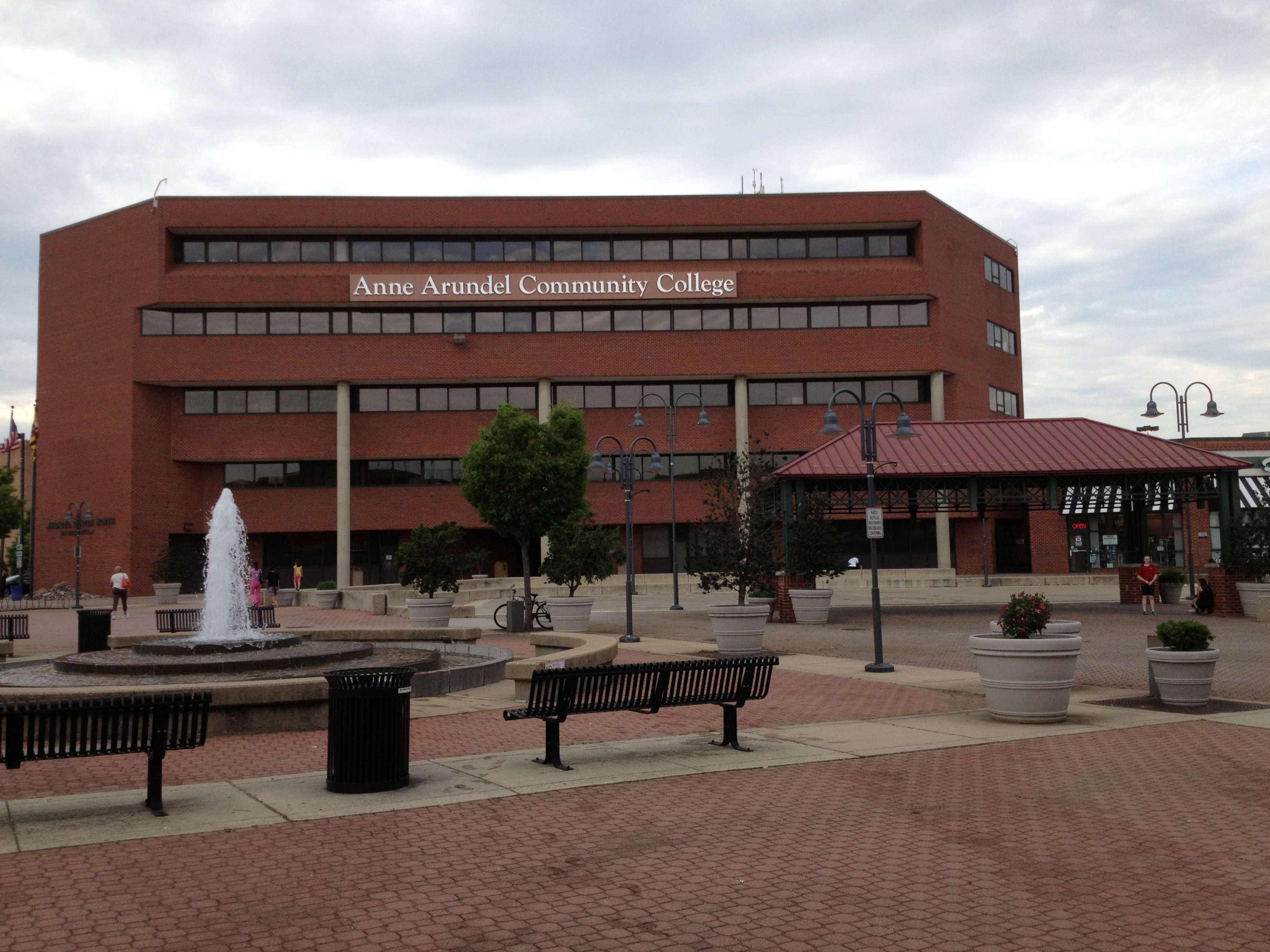 Anne Arundel Community College, May 16, 2013